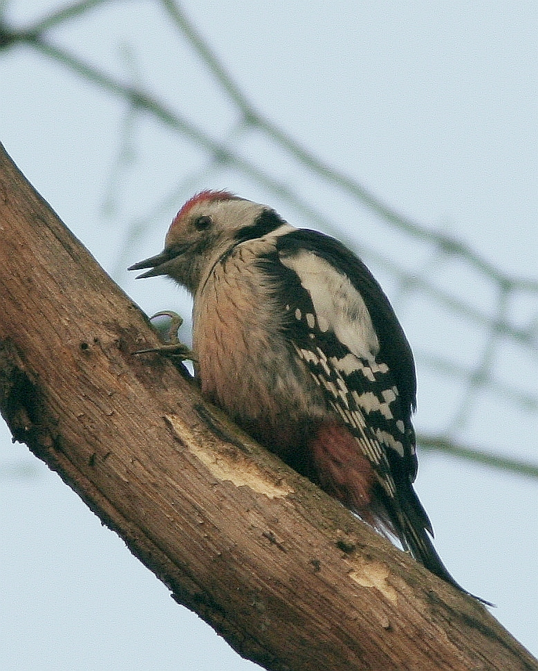 Middle Spotted Woodpecker, Warsaw Łazienki Park